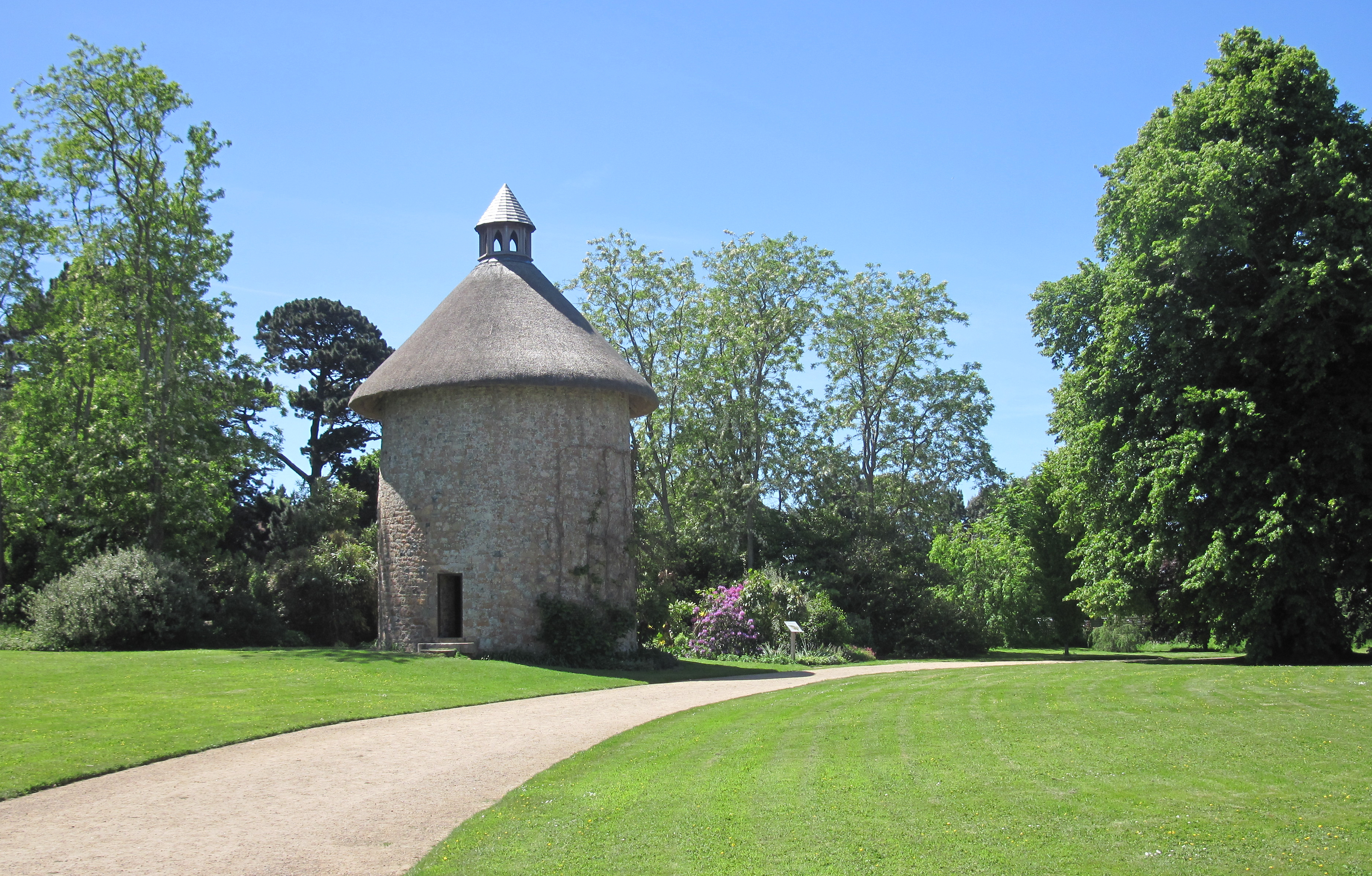 The colombier at Samarès Manor, Saint Clement, Jersey in May 2011. Probably the oldest colombier in Jersey, probably dates from the 12th century.